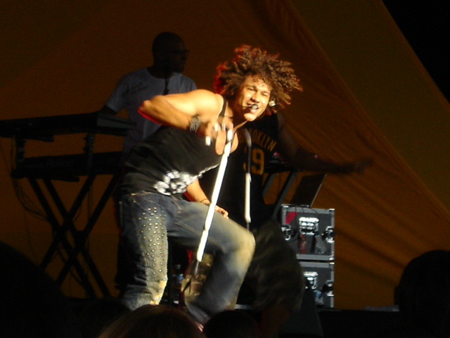 Corbin Bleu Singer, In July 13, 2007